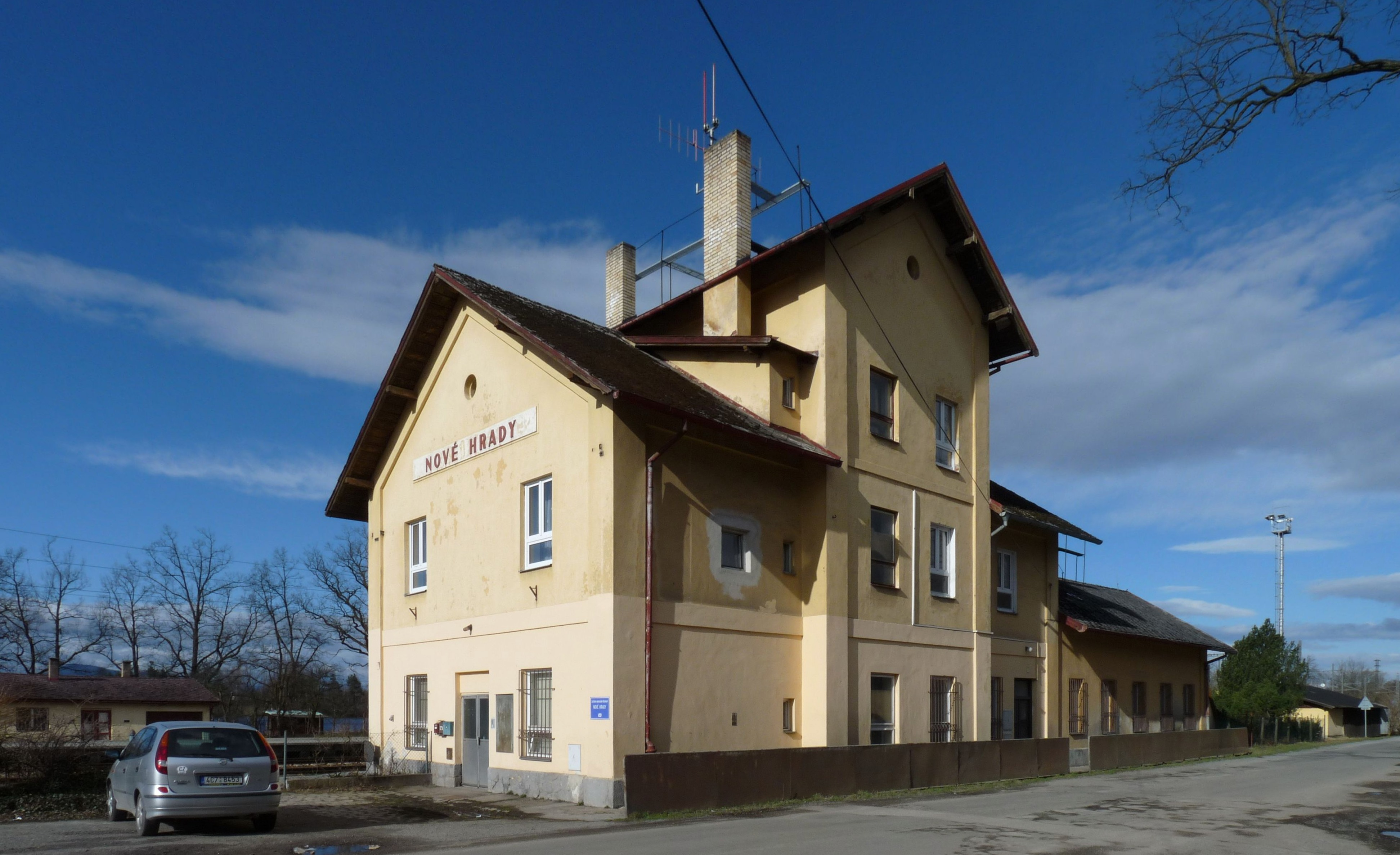 Train station in the village of Byňov, České Budějovice District, South Bohemian Region, Czech Republic.